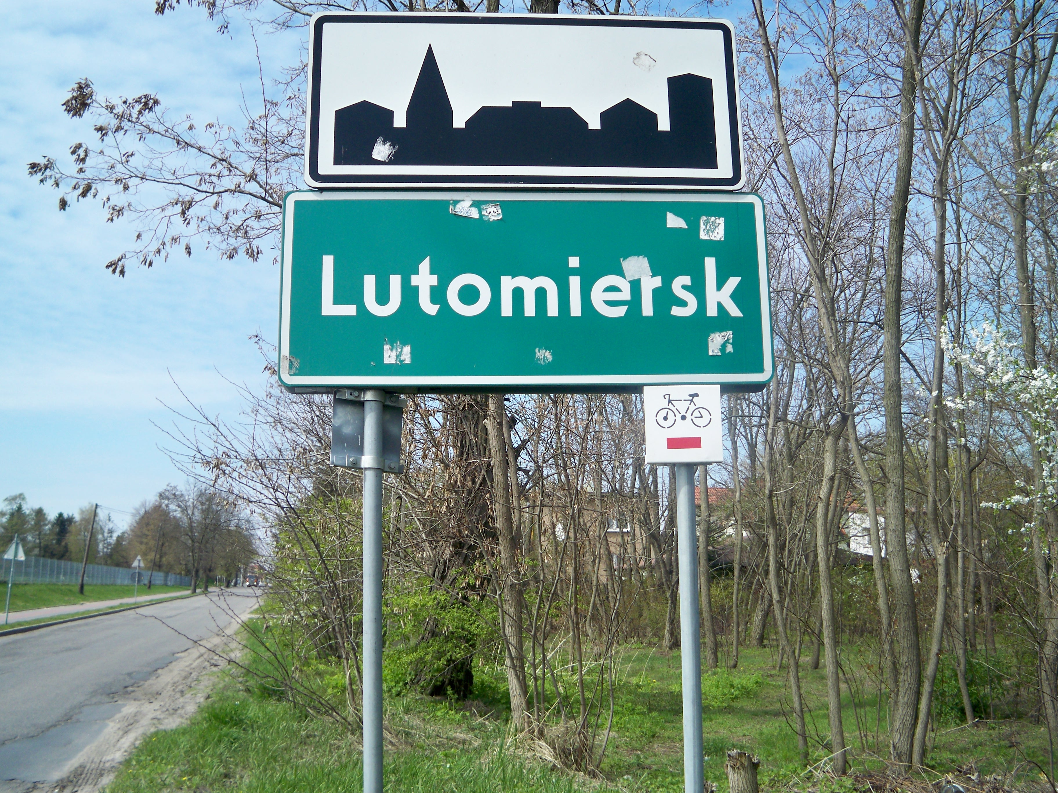 My photo